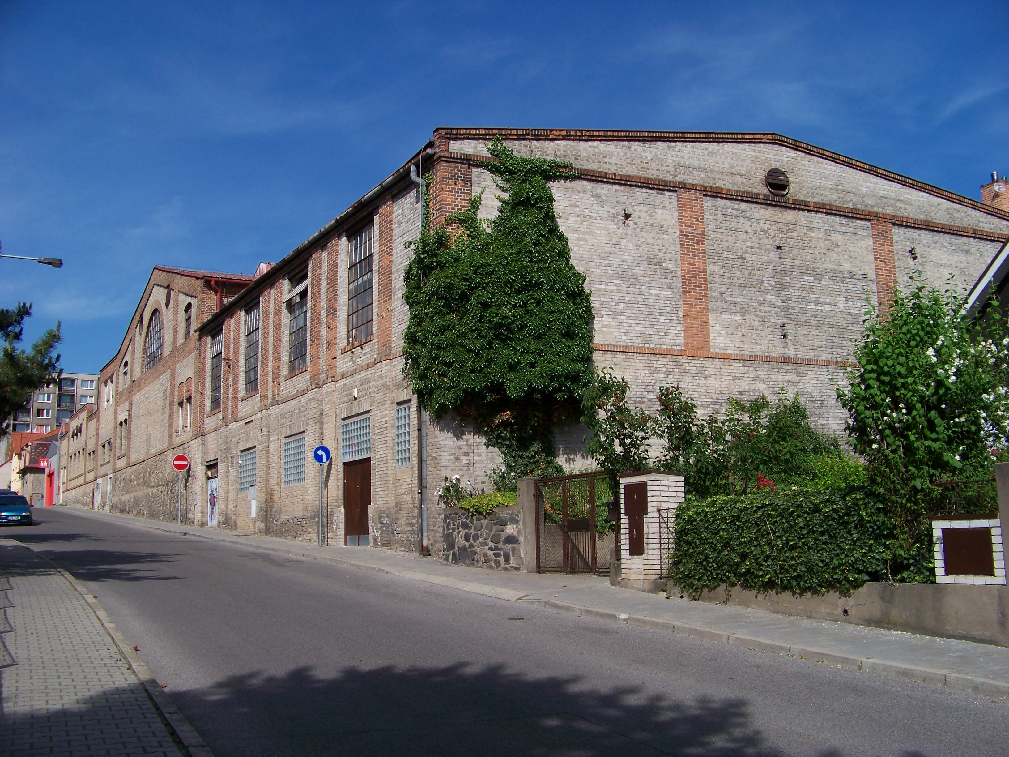 Prague-Radotín, Czech Republic. Věštínská 1497, 1496, 1507.